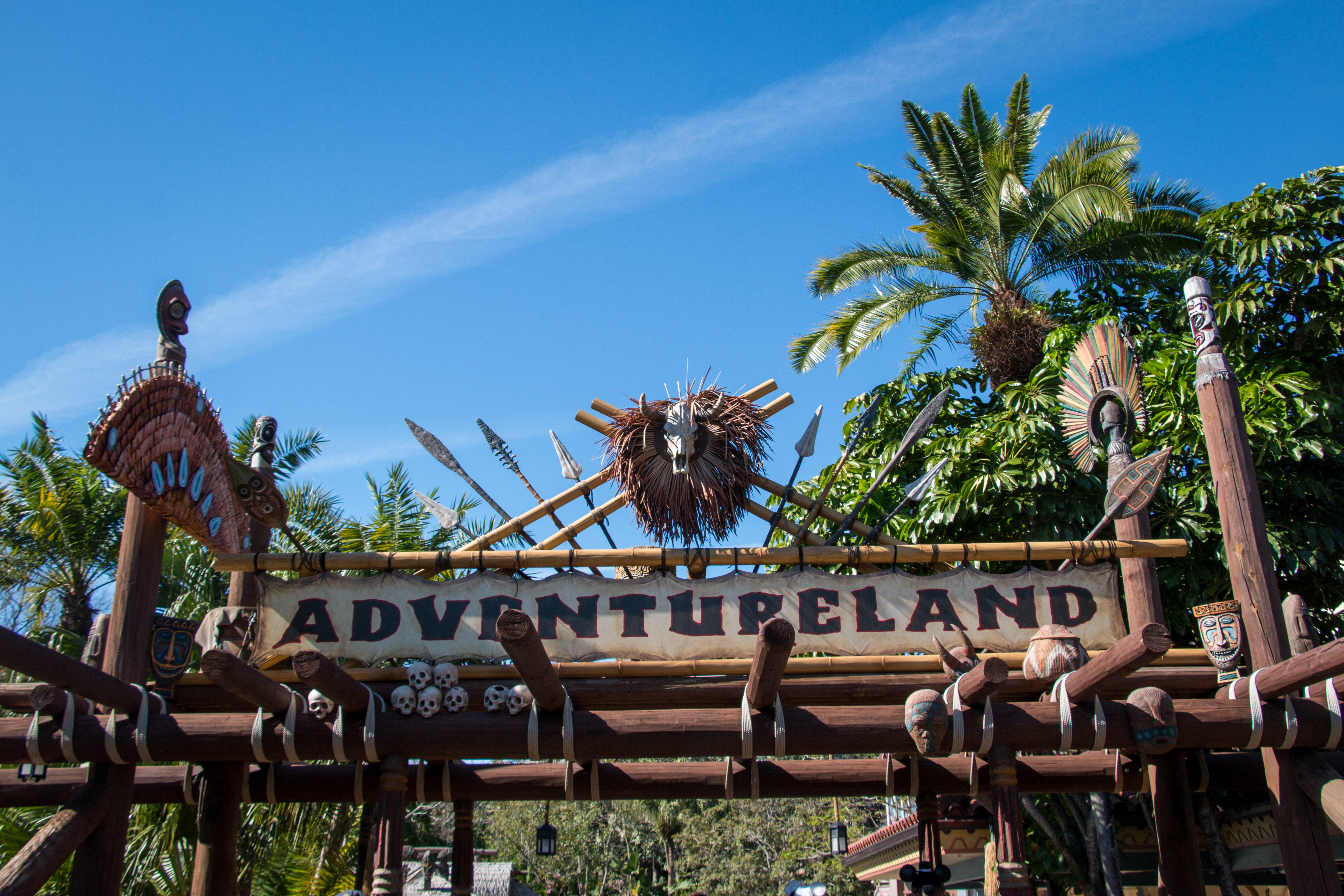 Signage for Adventureland at Magic Kingdom in Walt Disney World.